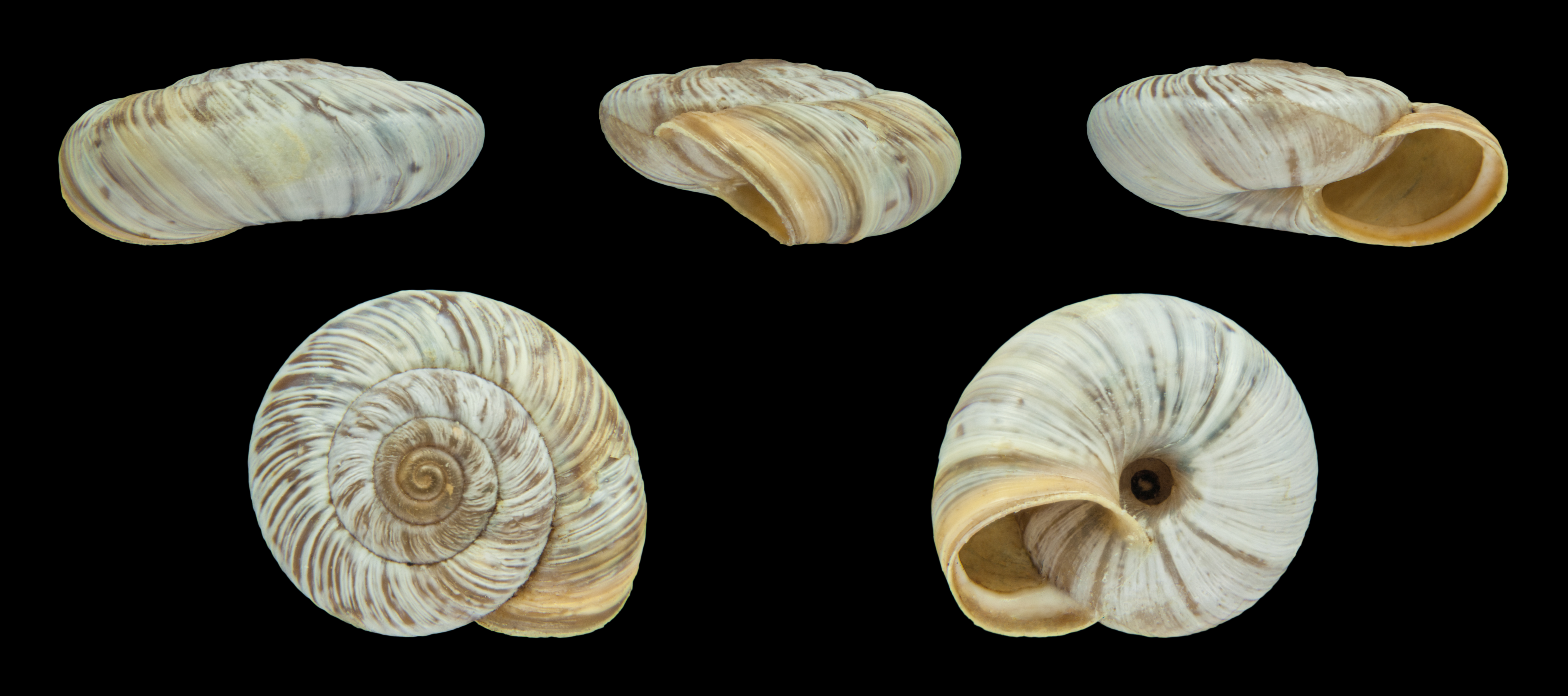 Pyrenaearia cantabrica (Hidalgo, 1873); Diameter 1.0 cm; Originating from Desfiladero de Los Beyos, Asturias, Spain; Shell of own collection, therefore not geocoded.